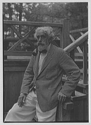 Architects and their work, Alfredo S.G. Taylor. Alfredo S.G. Taylor at Holbrook Camp II This work is from the Gottscho-Schleisner collection at the Library of Congress. According to the library, there are no known copyright restrictions on the use of this work.Images in this collection have been placed in the public domain by the heirs of the photographers.